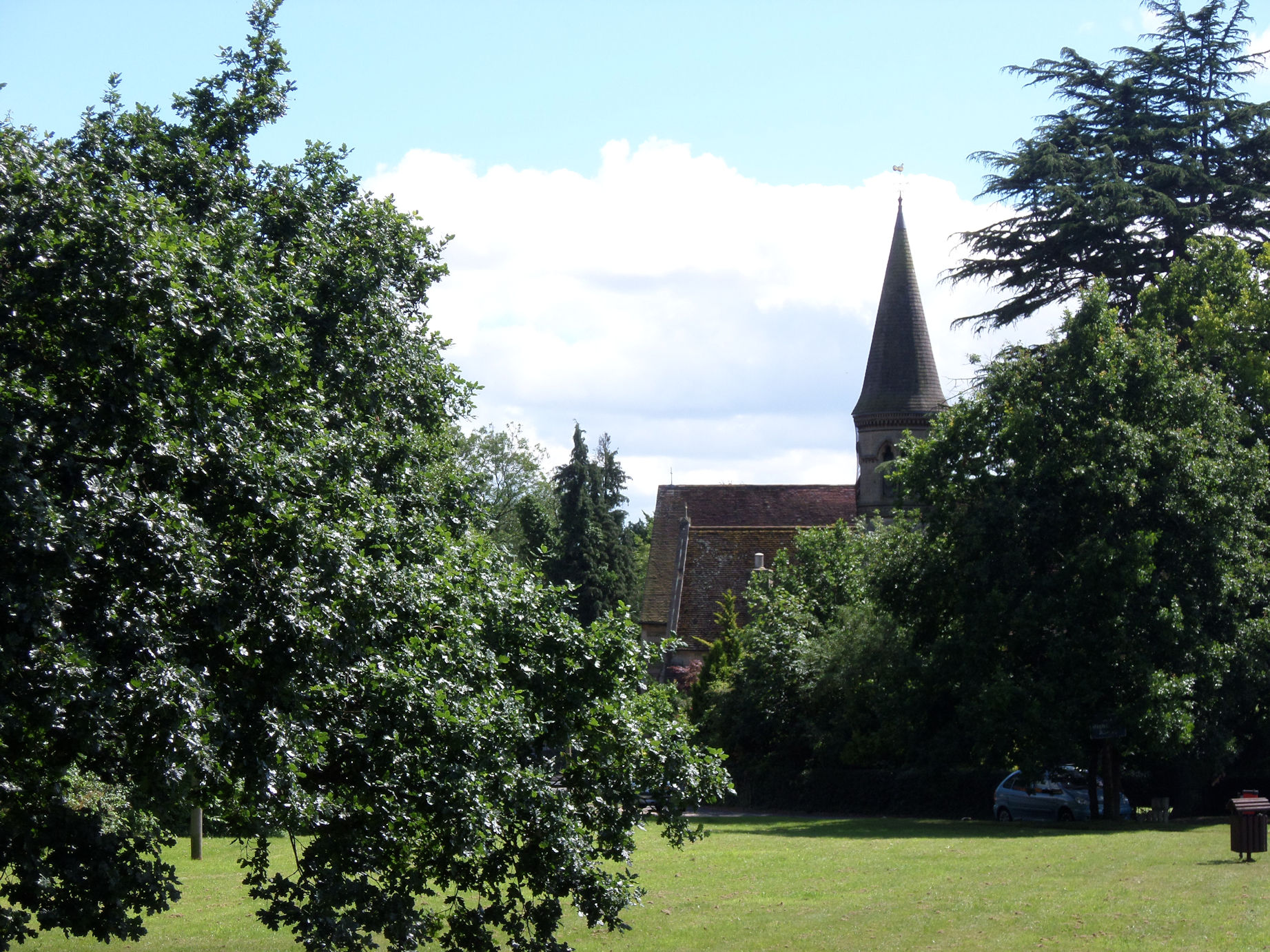 All Saints' Church, Croxley Green, Hertfordshire, from the Green